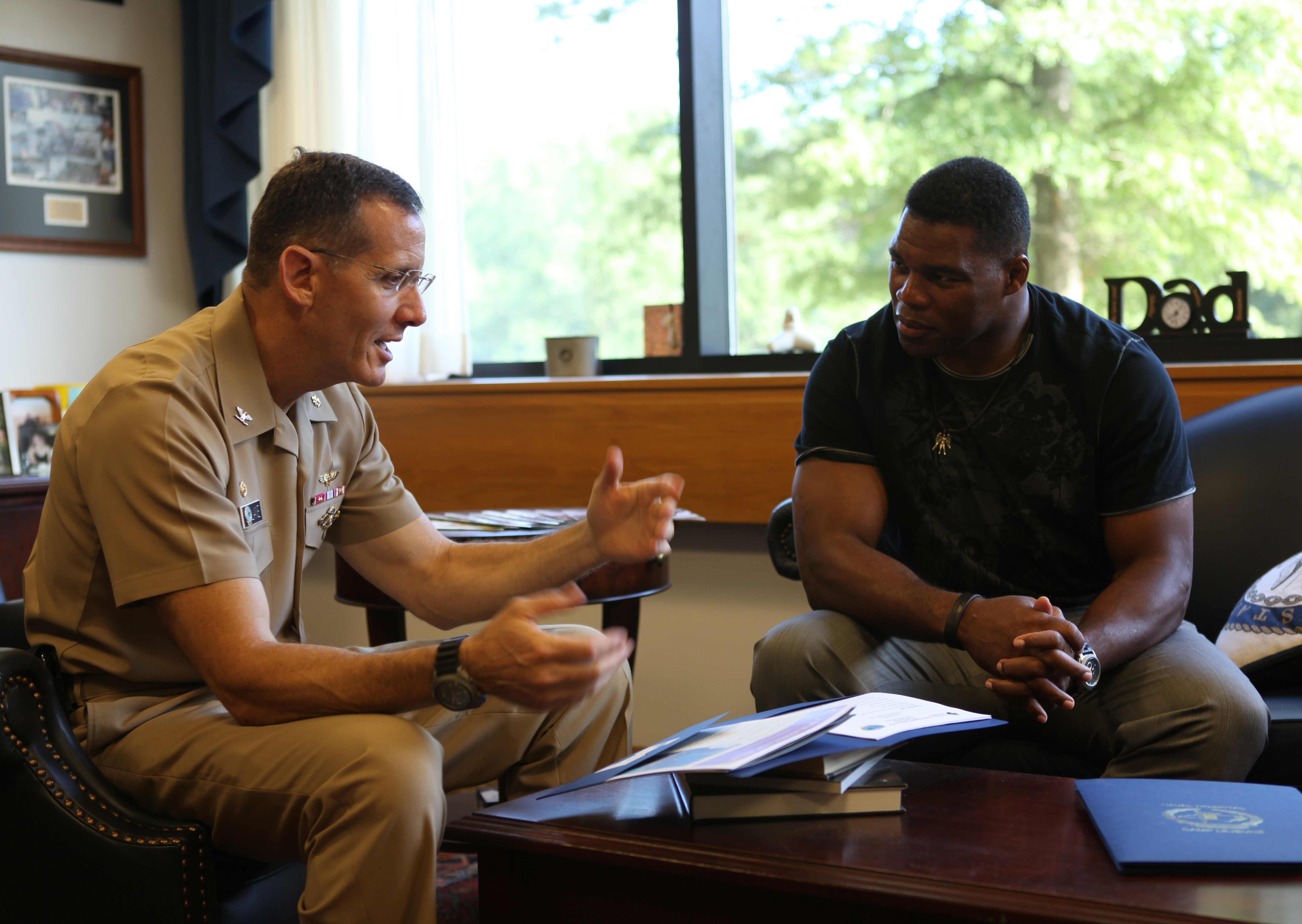 Herschel Walker talks with Navy Capt. David Lane, the commanding officer of Naval Hospital Camp Lejeune, aboard Marine Corps Base Camp Lejeune Aug. 9. Lane explains how the hospital helps service members who battle against mental health problems.